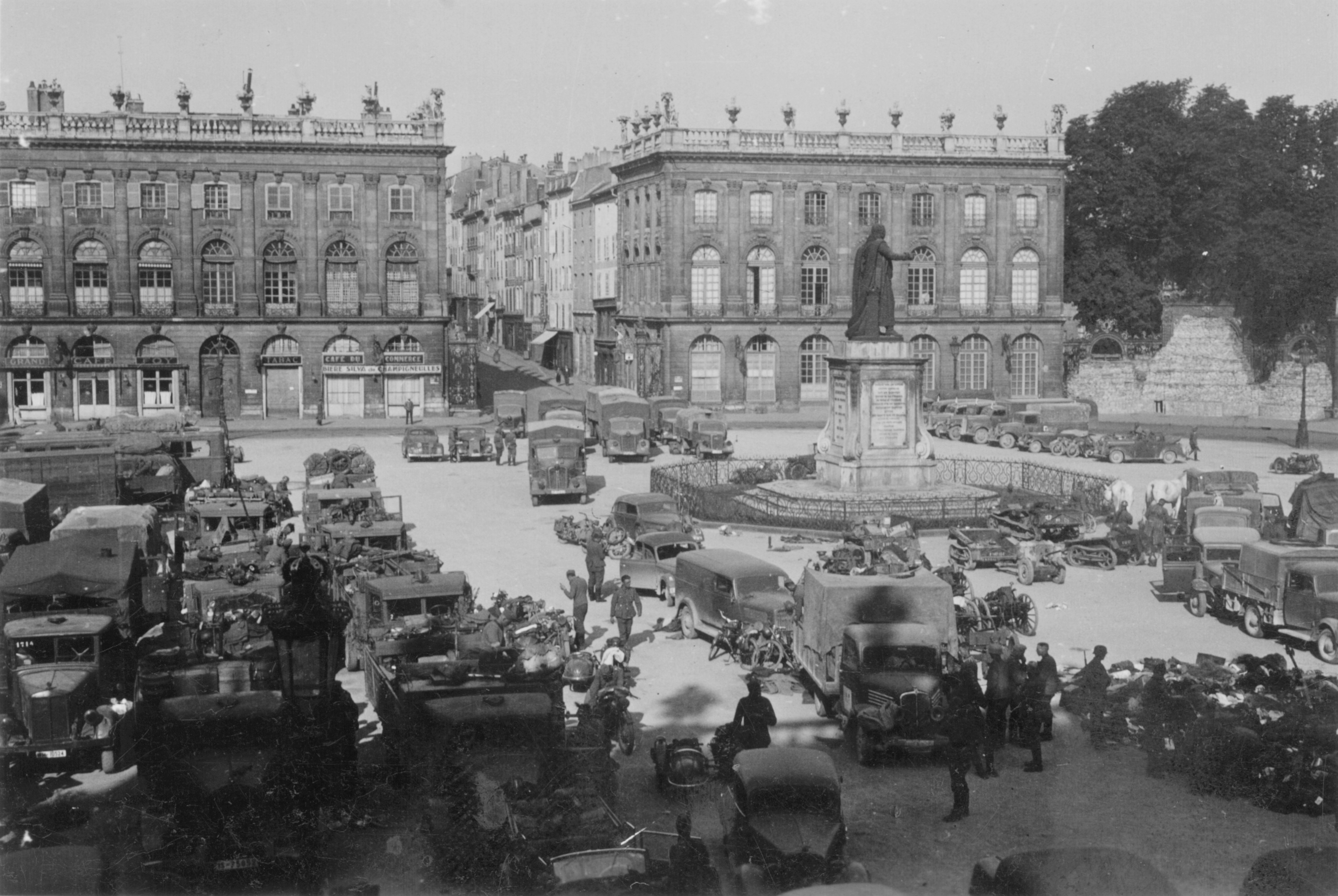 Place Stanislas in Nancy occupied by german soldiers with supply trucks.